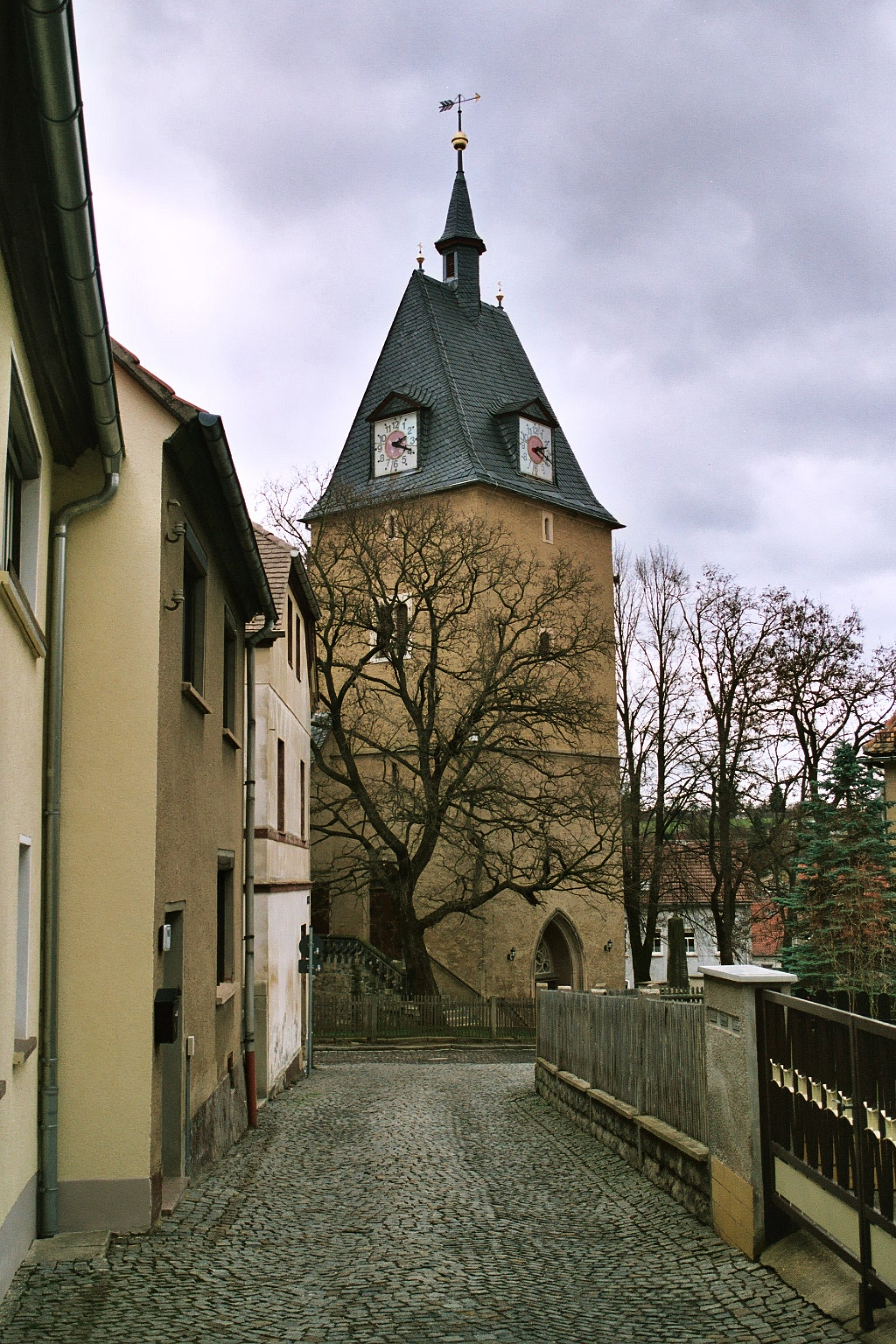 Münchenbernsdorf, the tower of the town church